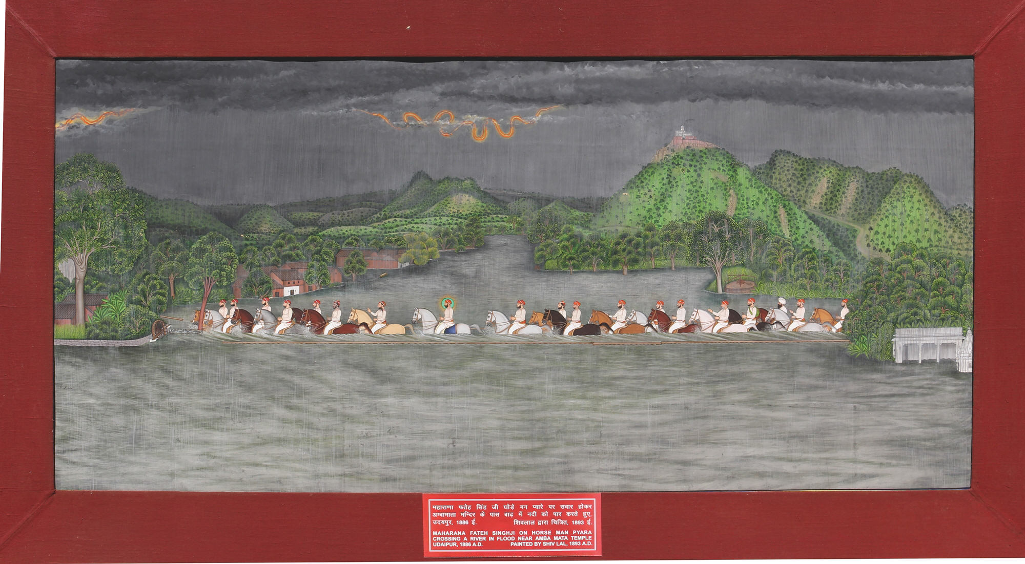 Shivalal. Maharana Fateh Singh's hunting party crossing a river in a flood Udaipur, Mewar, 1893, City Palace Museum, Udaipur.